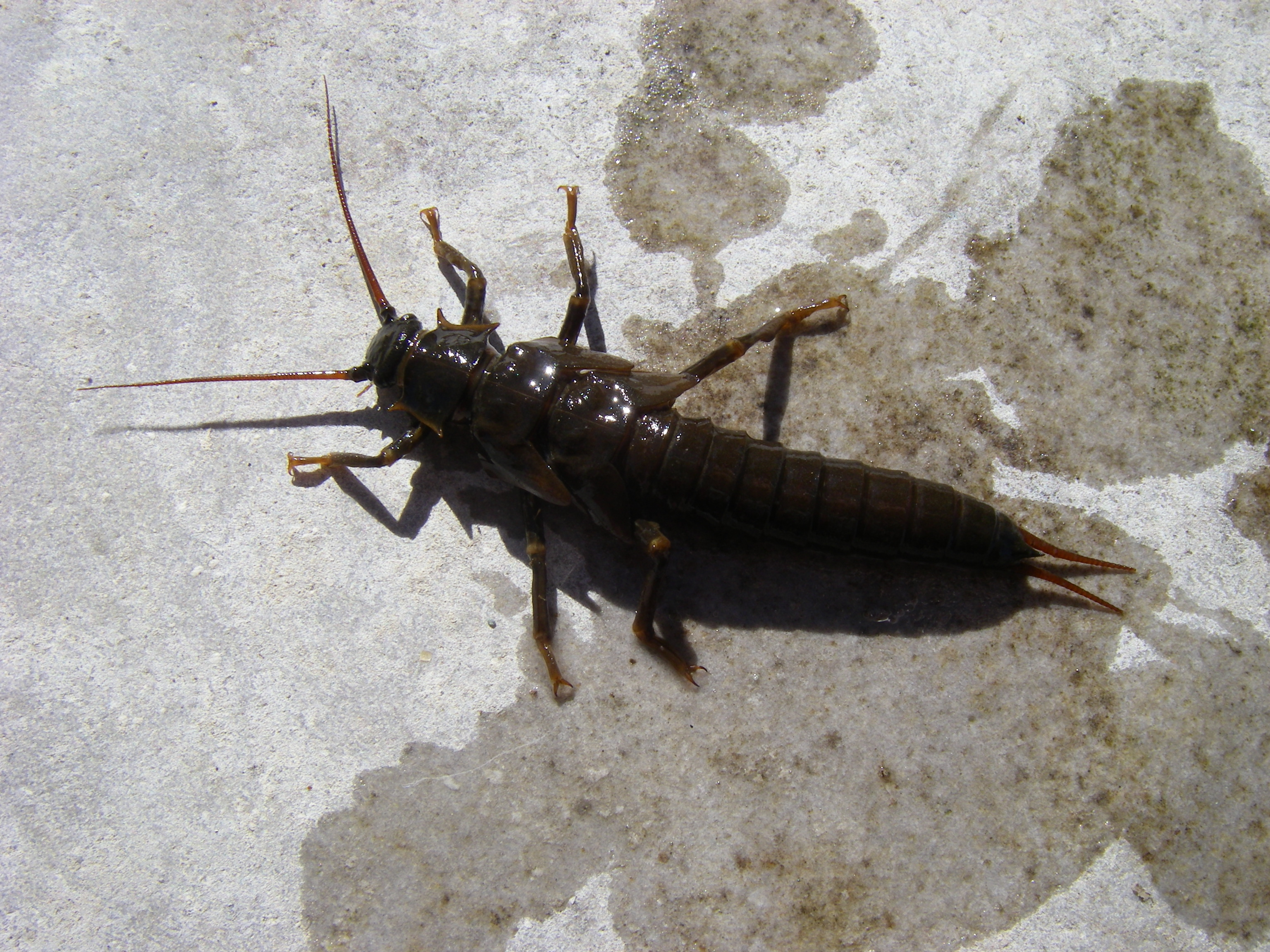 Pteronarcys californica nymph; self-made; 3/2/08 Phinfish Multi-liscence GFDL, all CC-BY-SA